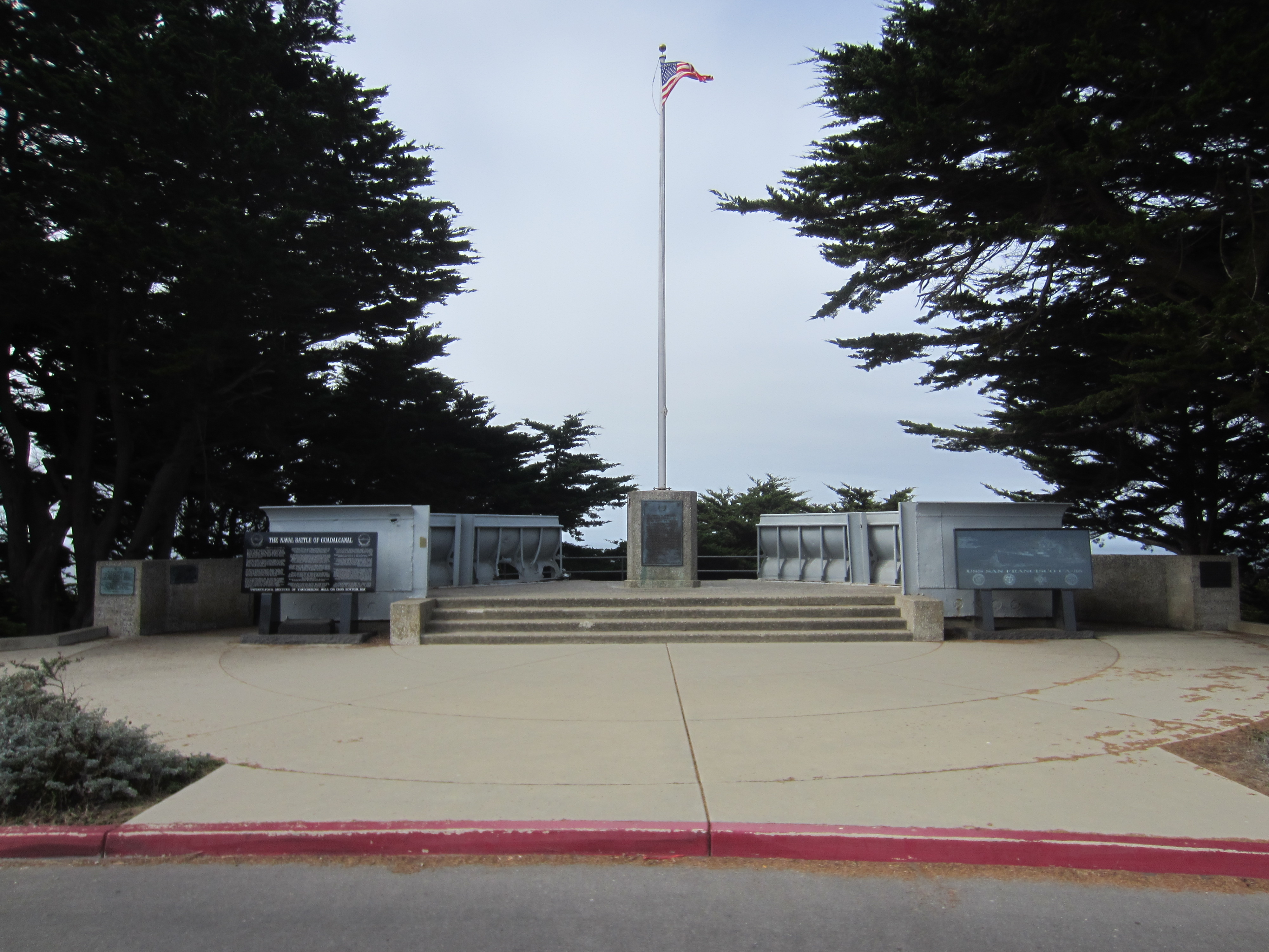 San Francisco (2018)